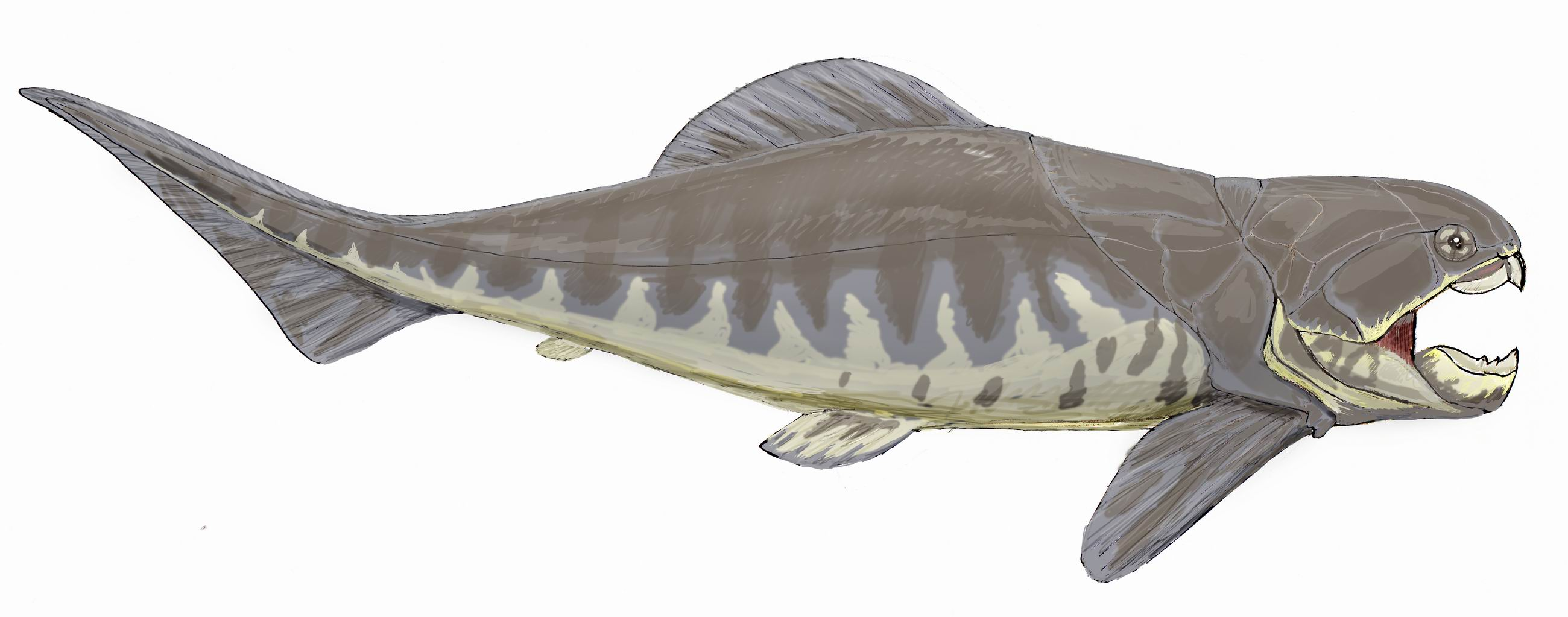 Dunkleosteus "intermedius" (synonym of D. terrelli). Based on famous skeletal drawing from B. Dean.